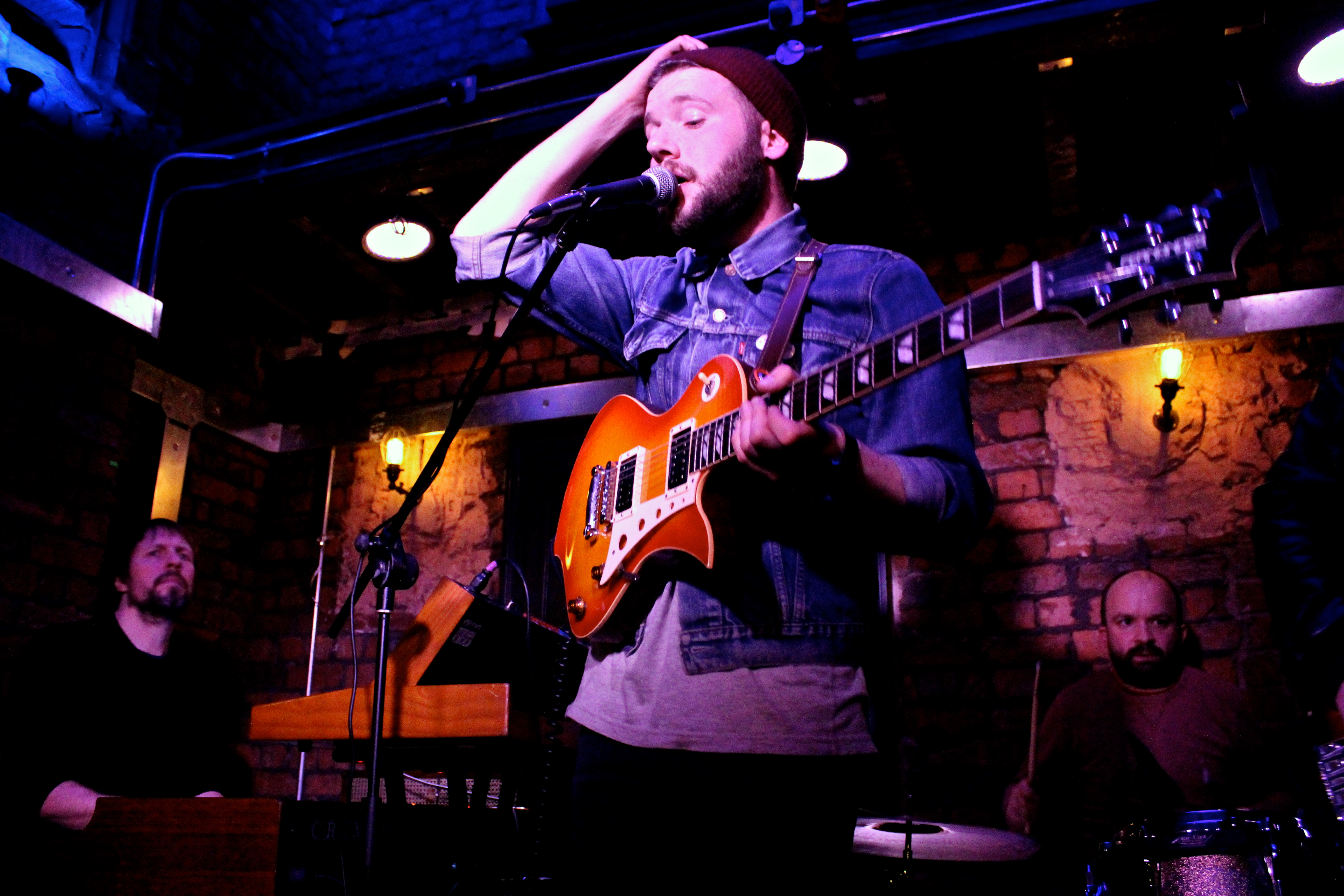 Christian Madden, Liam Frost and Richard Young performing with the band TOKOLOSH at The Eagle Inn in Salford. Image © Emma Farrer and used with her permission.